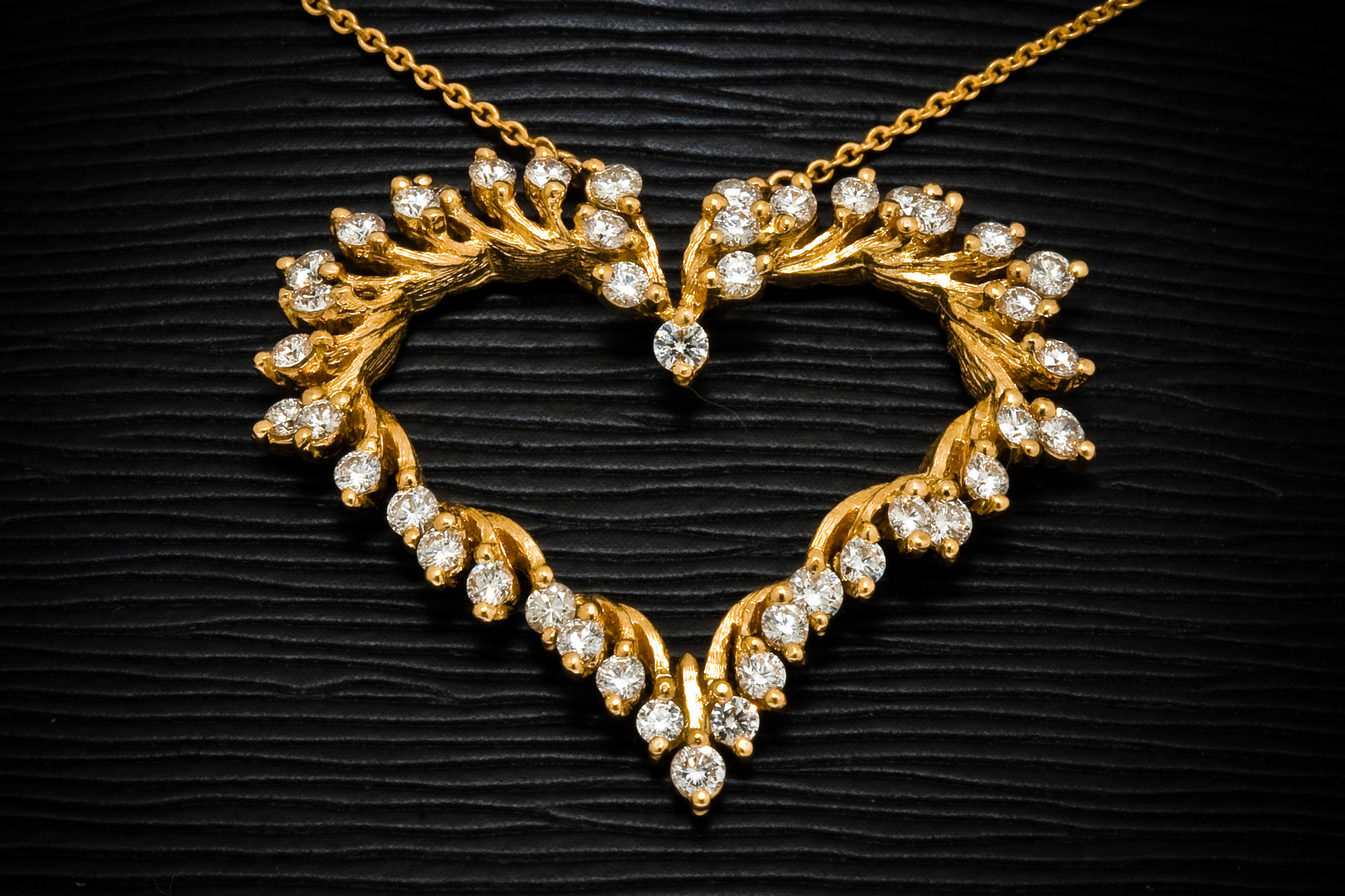 Gold Jewelry / Gold Jewellery